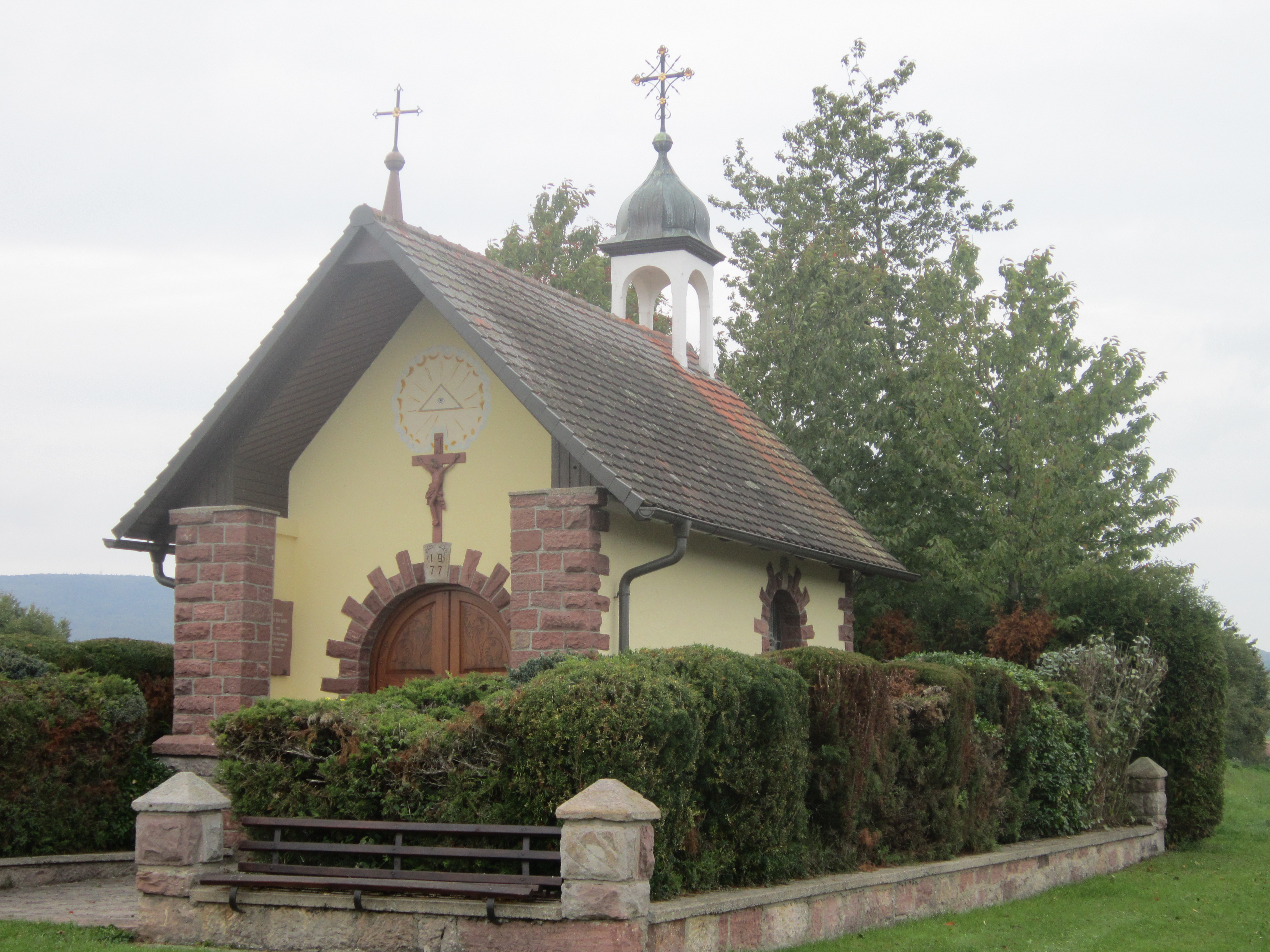 Wendelinuskapelle in Stangenroth, a quarter of the German town of Burkardroth in Lower Franconia (Bavaria).